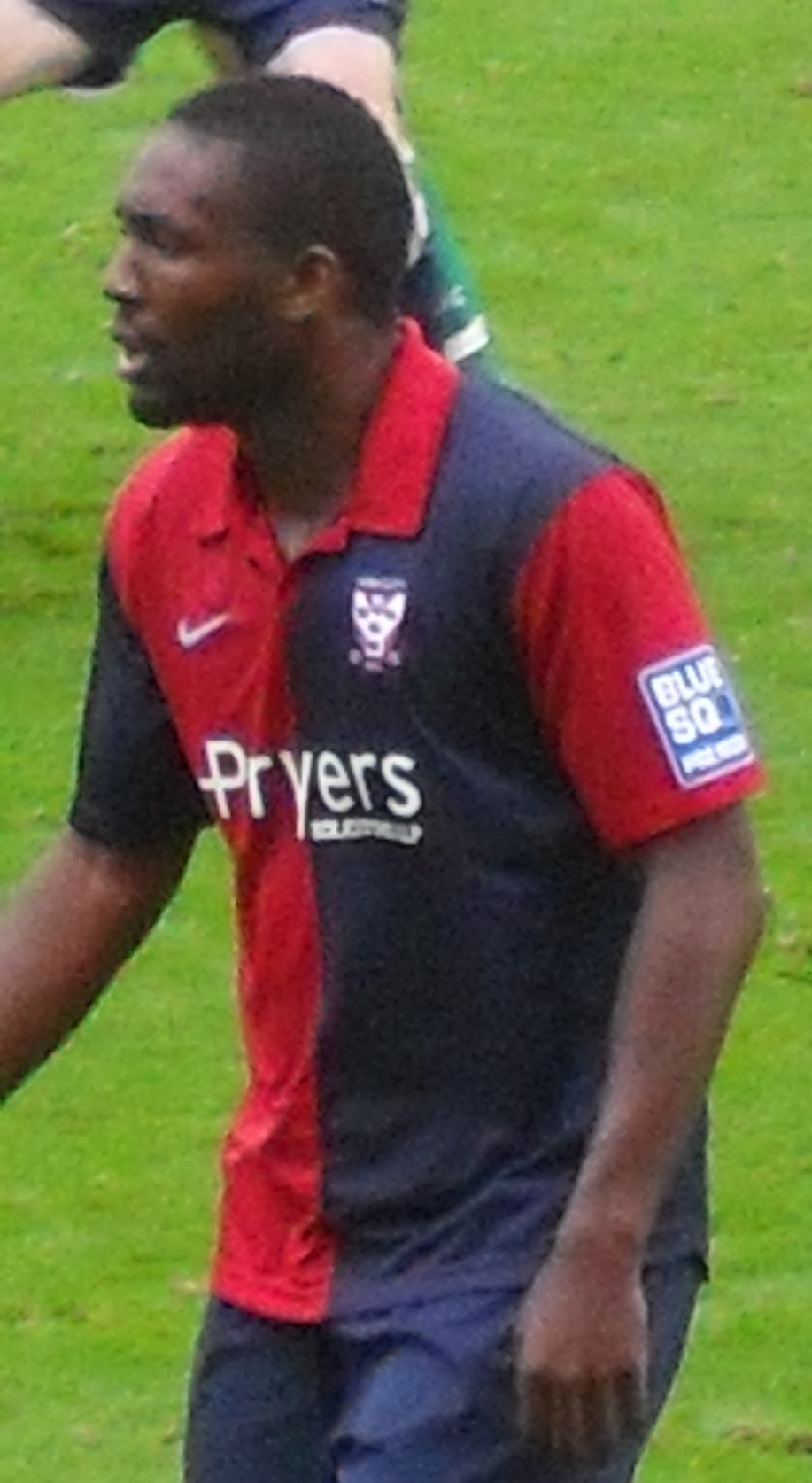 Michael Rankine playing for York City against Bedworth United at Bootham Crescent, York on 24 October 2009